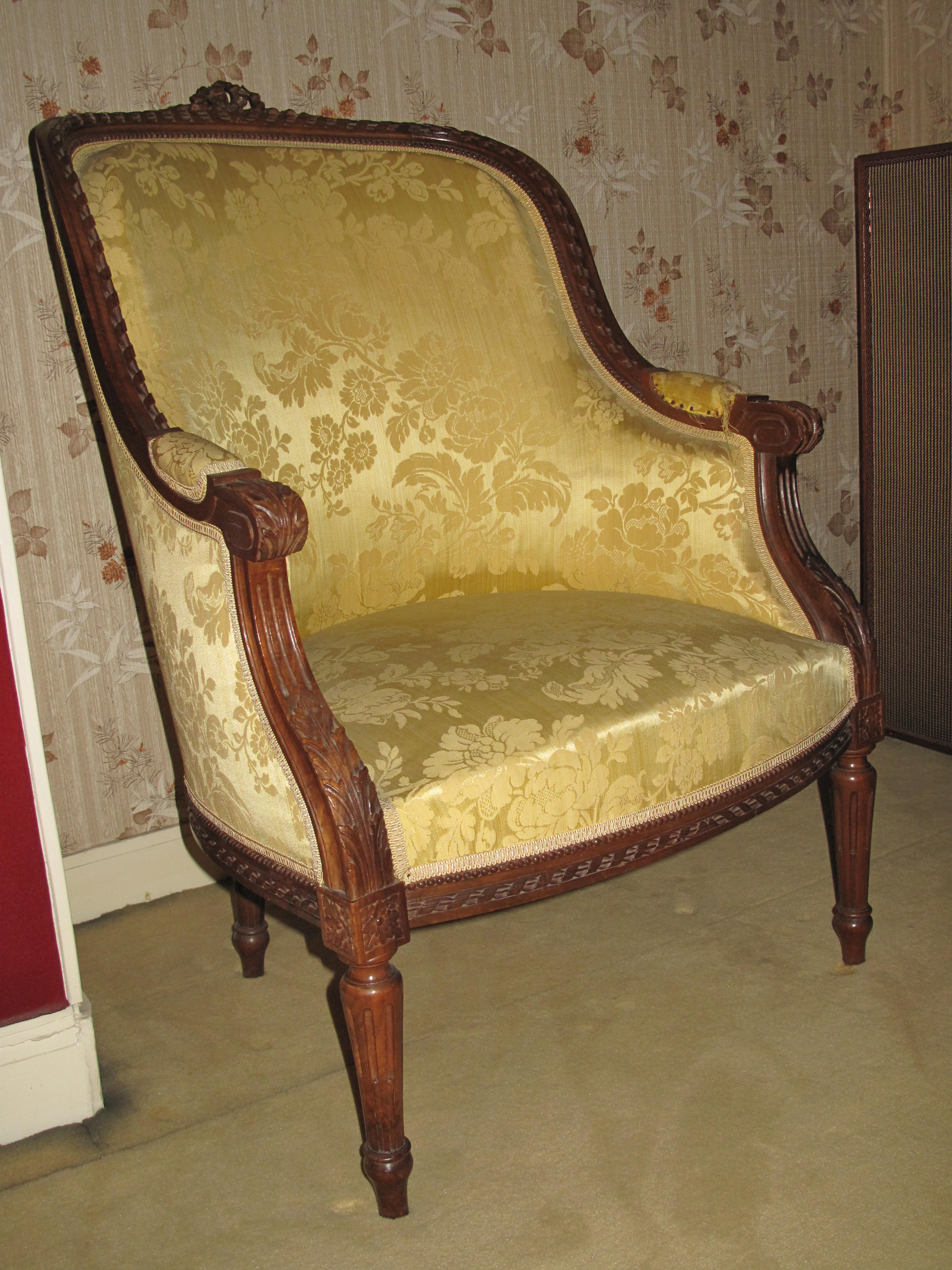 French armchair in the style Louis XVI. In french, that type of armchair is called "Bergere" (=Shepherdess)